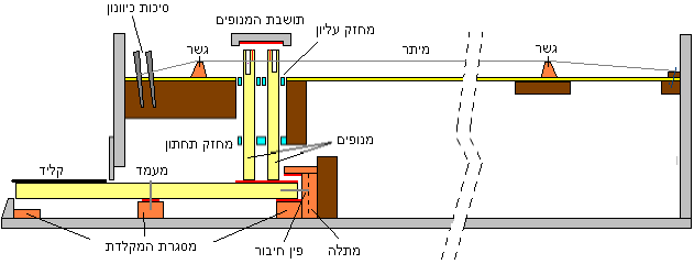 hebrew version of Image:SourceHarpsichord action.png